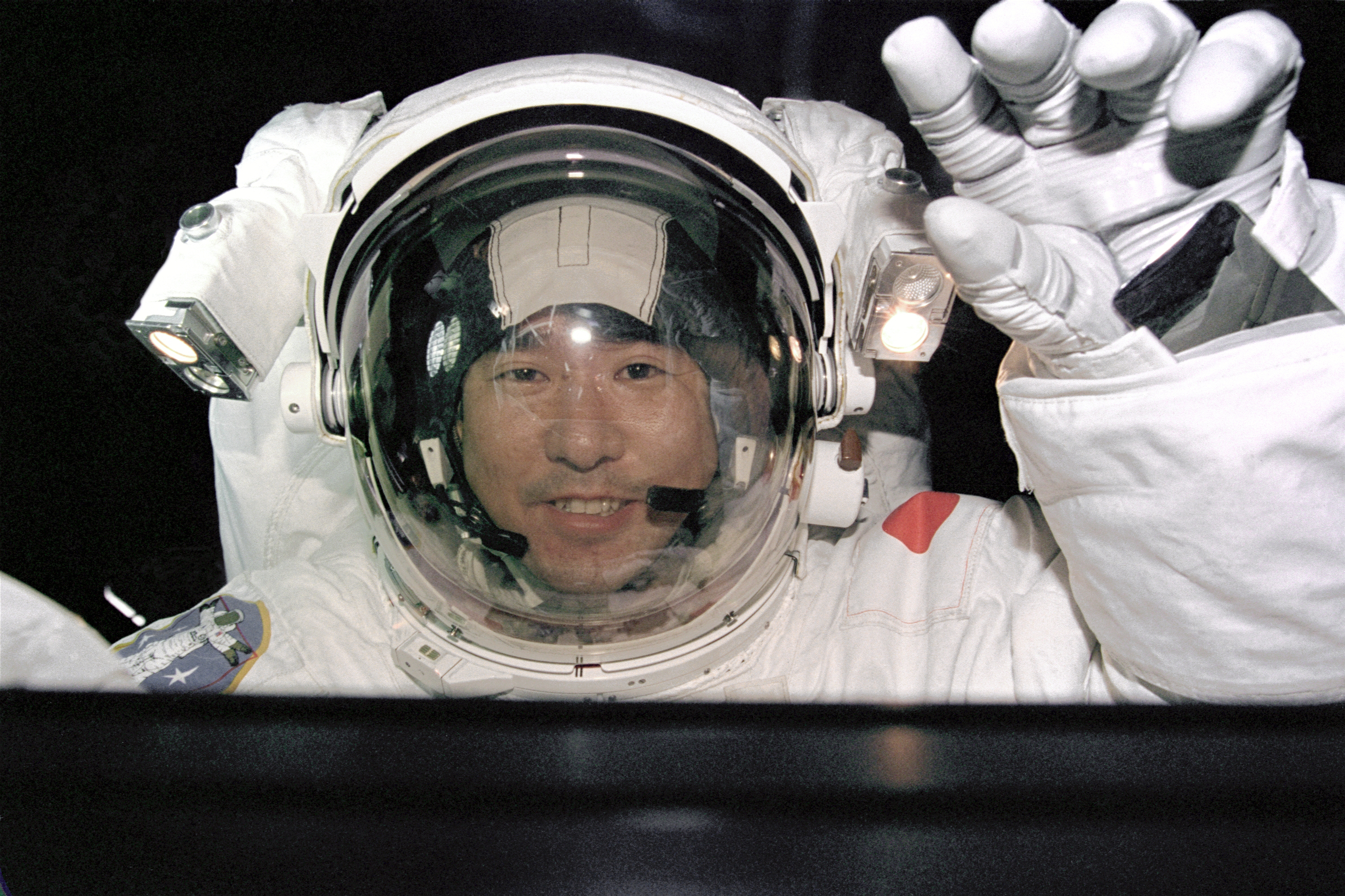 Mission Specialist Takao Doi conducts the second Extravehicular Activity (EVA) on mission STS-87. He waves at crew members inside Columbia from the aft Payload Bay windows.